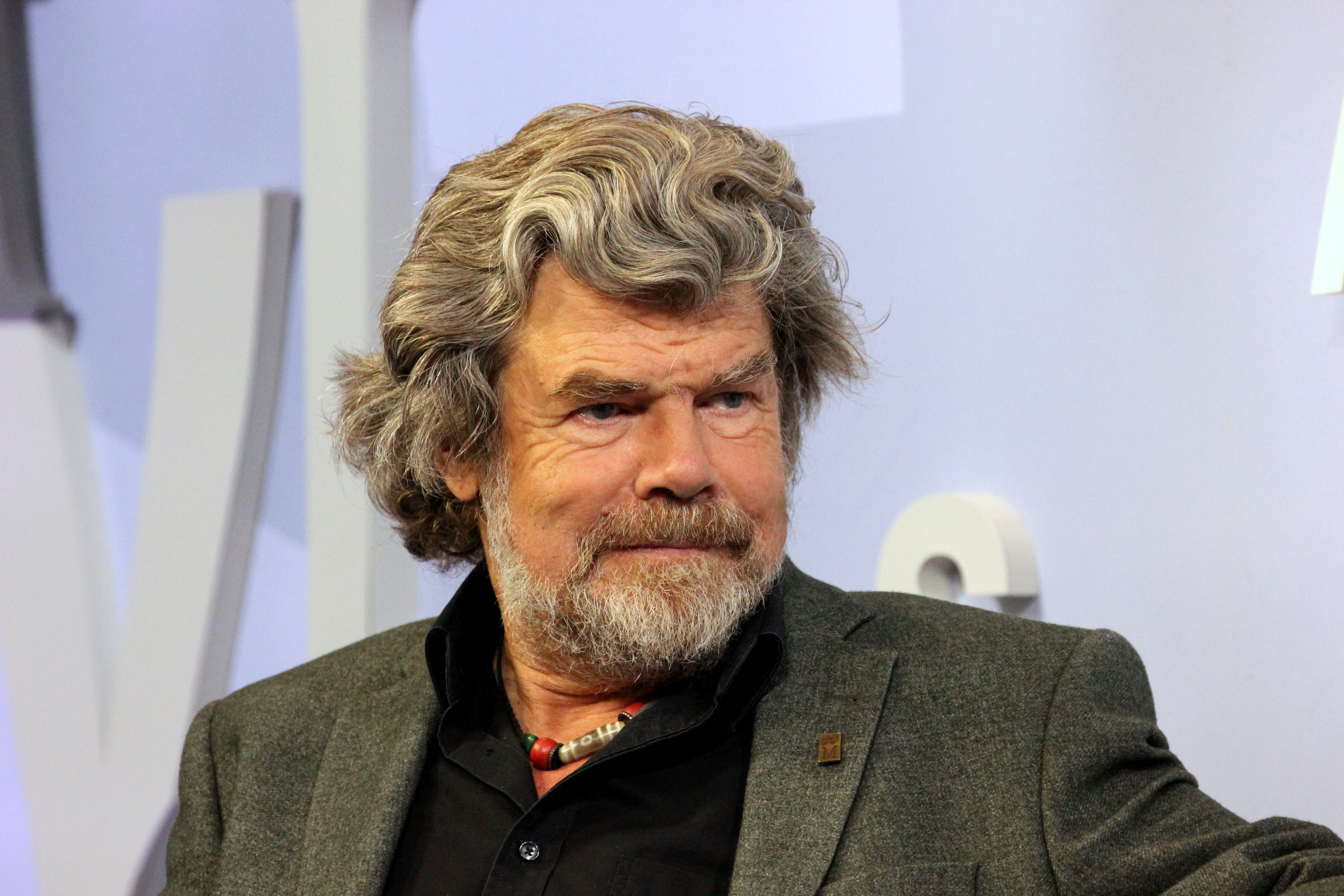 Reinhold Messner at Frankfurt Book Fair 2015